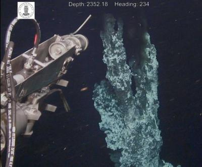 Top of a vent chimney at Loki's Castle. The top three feet of a chimney nearly 40 feet tall are visible as the arm of a remotely operated vehicle reaches in to sample fluids. The vent is part of the northernmost hydrothermal vent field yet seen and sampled. Depth 2352.18 metres. Heading 234.